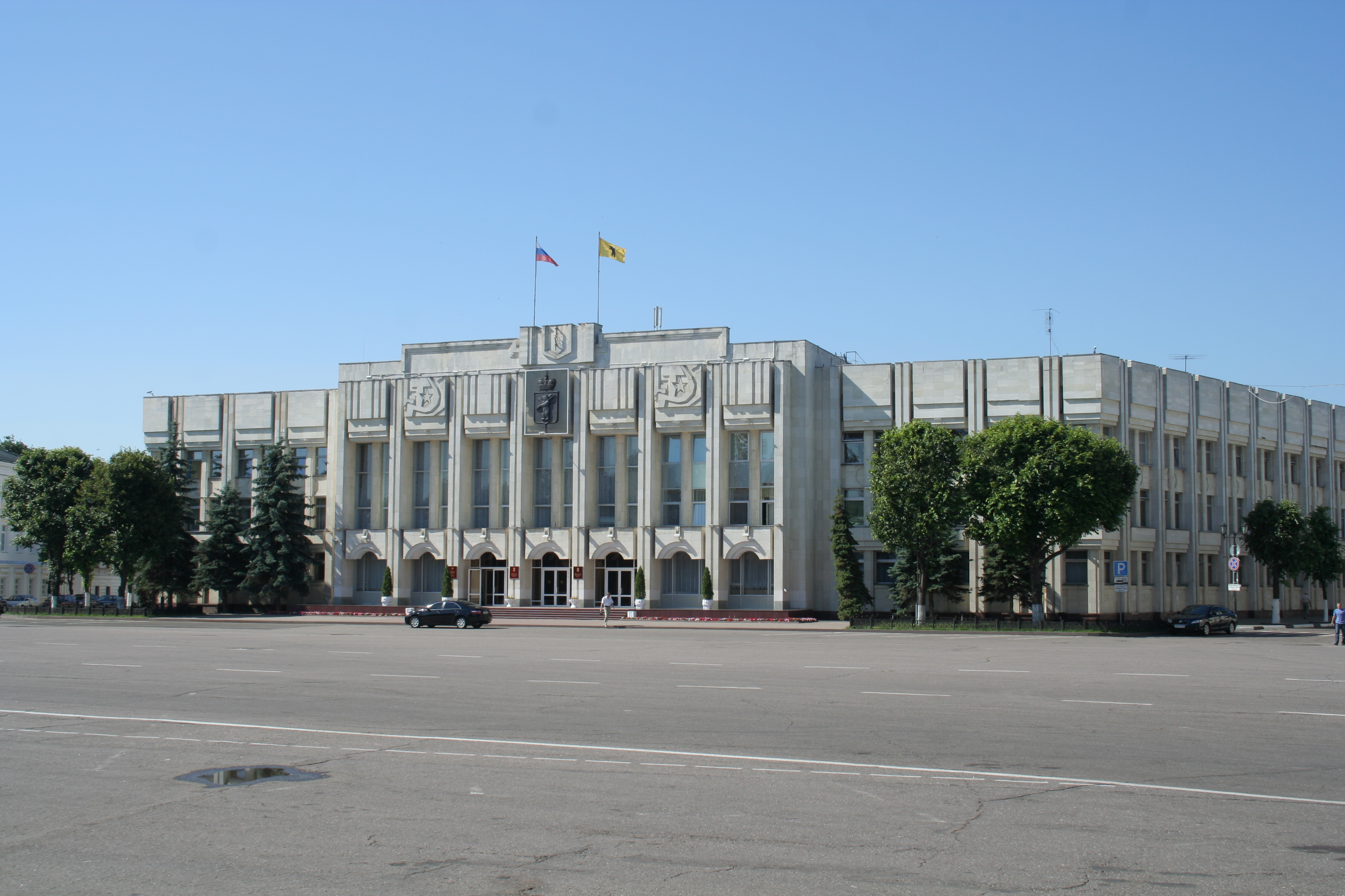 The building of the Oblast Yaroslavl Government in Yaroslavl, Russia